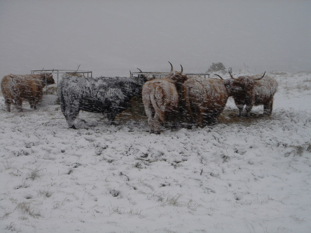 Cattle feeding station, near to Brough, Highland, Great Britain. Highland cattle feeding on baled silage at Burifa Hill, Dunnet Head.